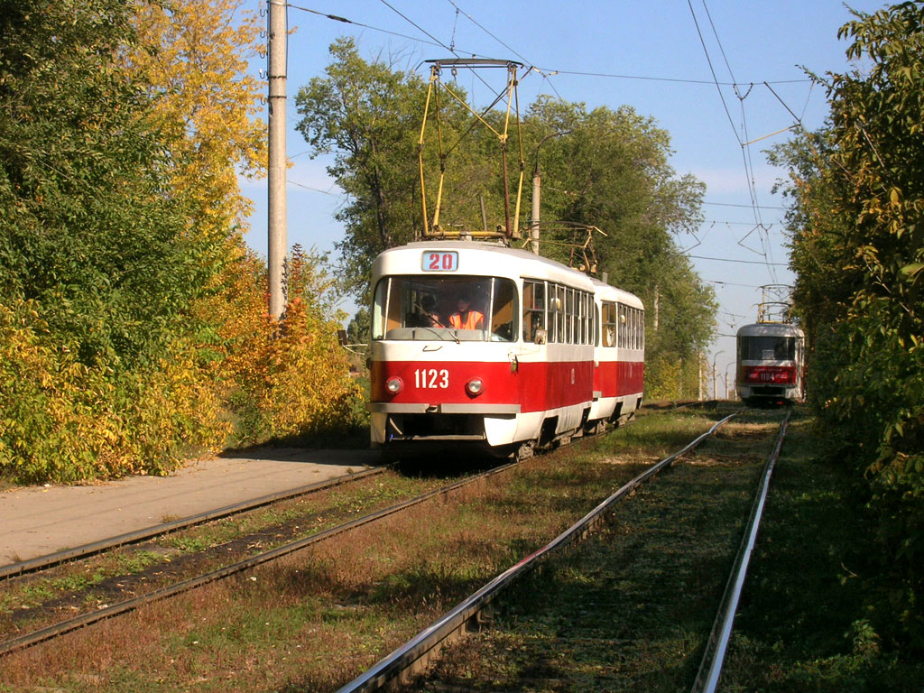 Two connected tram wagons Tatra T3, Samara city, Russia